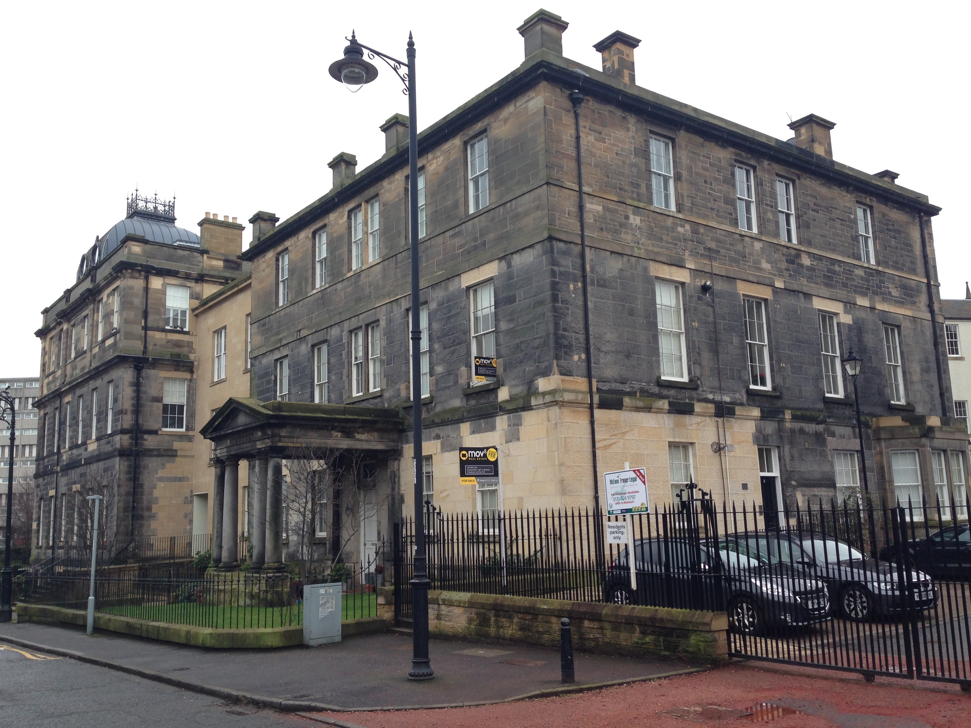 Leith Hospital and Infirmary on Mill Lane, with the Fever Hospital in the foreground